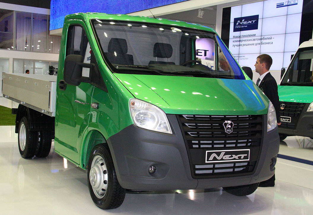 Новая ГАЗель-Next на ММАС-2012